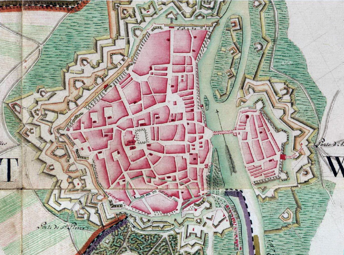 Maastricht,_Netherlands,_ferraris,_1775.jpg